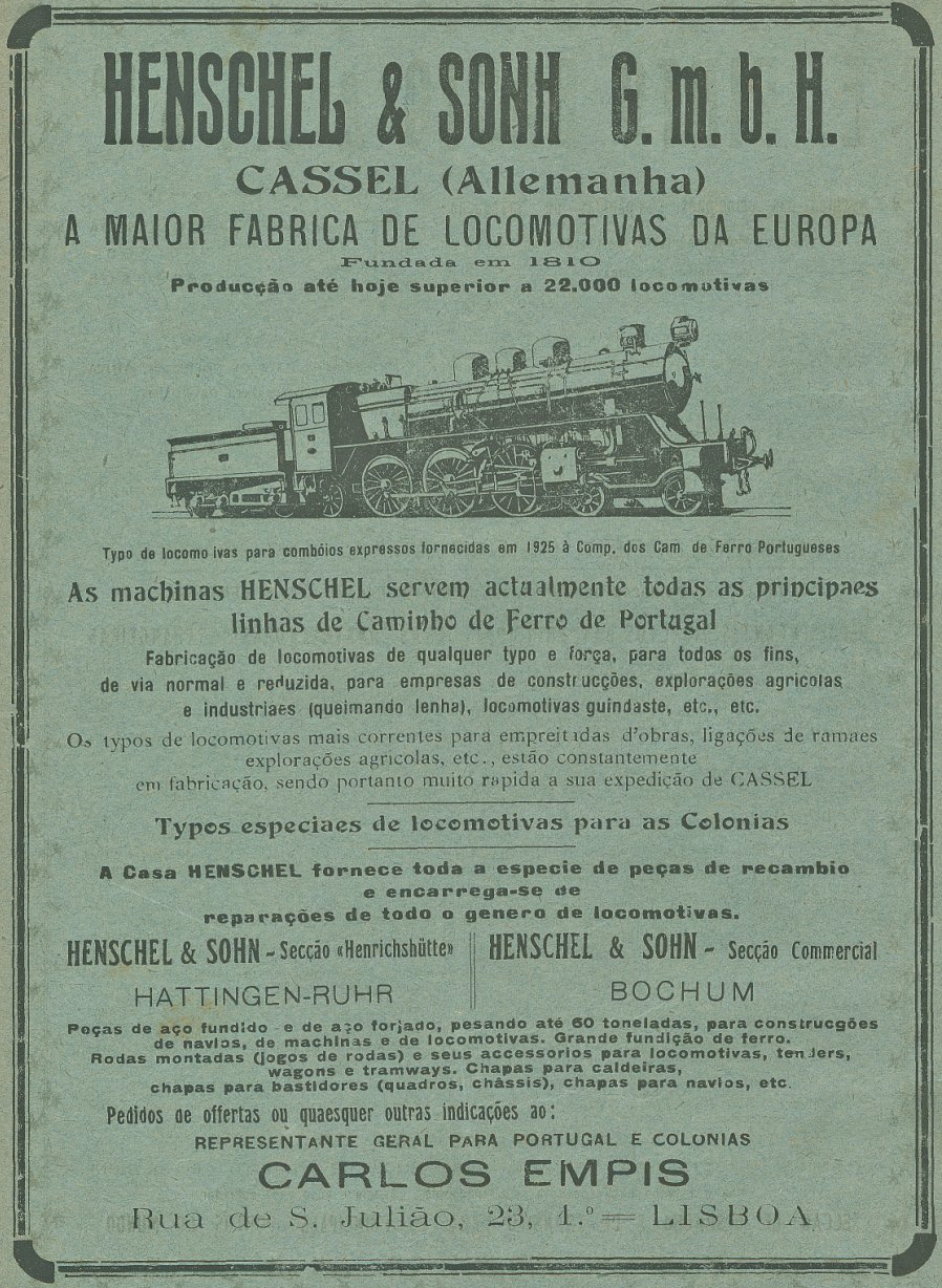 Advertising for the locomotives of the german company Henschel & Sohn. The locomotive in the ad was of the 501 - 508 Series of the Portuguese Railways Company. This image was published on the Gazeta dos Caminhos de Ferro magazine no. 932, of the 16th October 1926, and scanned by the Hemeroteca Municipal de Lisboa.